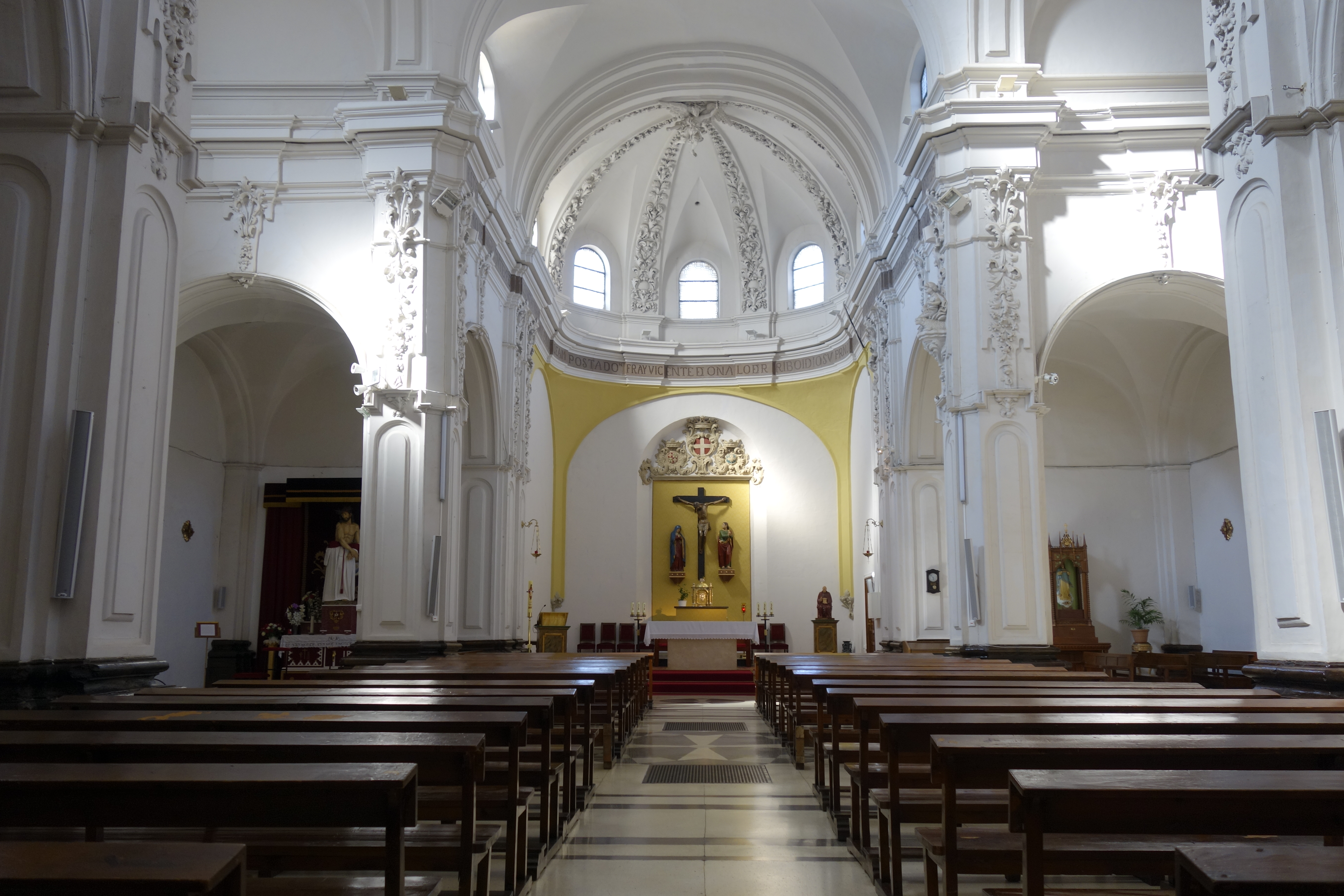 Interior of the church of San Juan de los Panetes (Zaragoza, Spain)